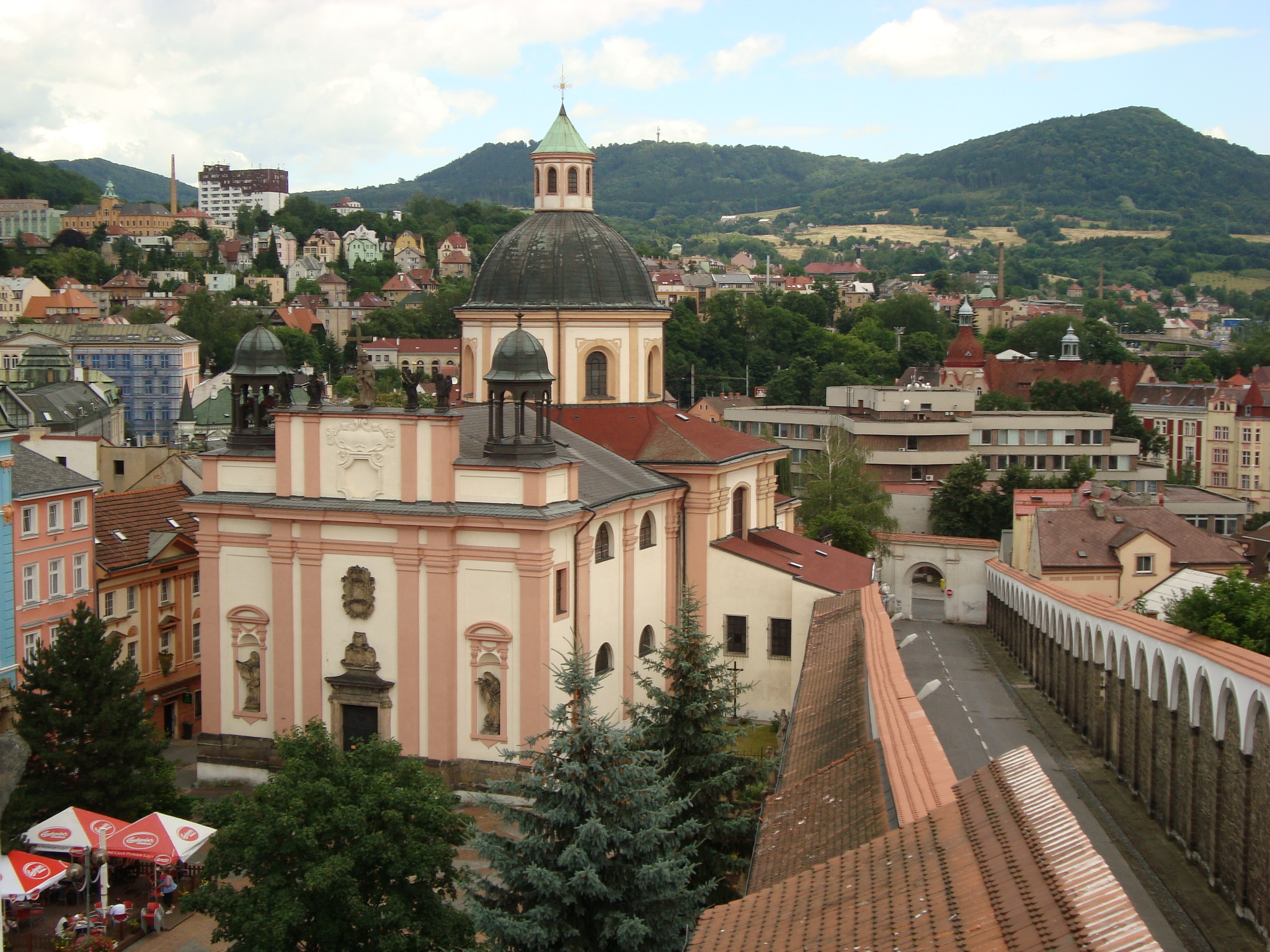 Rose Garden of Děčín Castle, Czech Republic. Church of the Holy Cross and lower part of the Long Drive as seen from the gloriet in eastern end of the garden. The thick northern wall of the Long Drive contains a covered passage leading to the church.